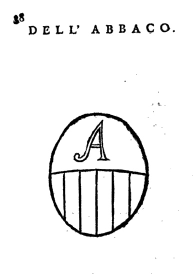 Coat of Arms of Dagomari/Dell' Abbaco Family from Prato, Tuscany